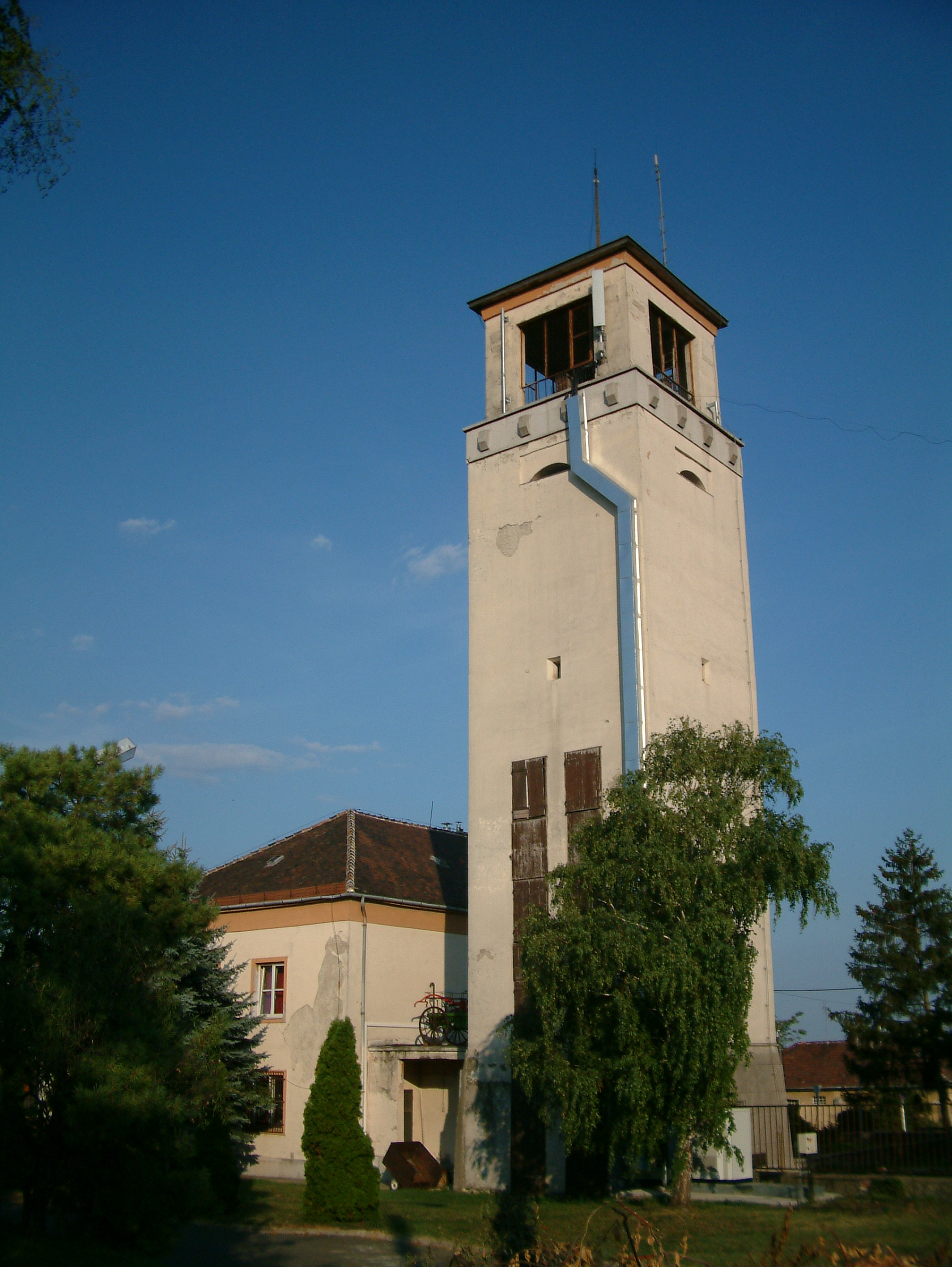 Fire tower of Budatétény, Budapest